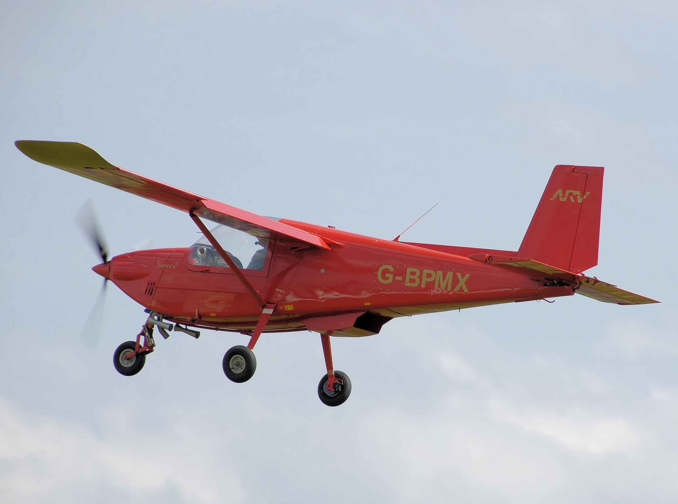 ARV Super2 (G-BPMX), built in 1989, takes off at the Great Vintage Flying Weekend (a gathering of vintage light aircraft) at Kemble Airport, Gloucestershire, England. Photographed by Adrian Pingstone in May 2009 and released to the public domain.